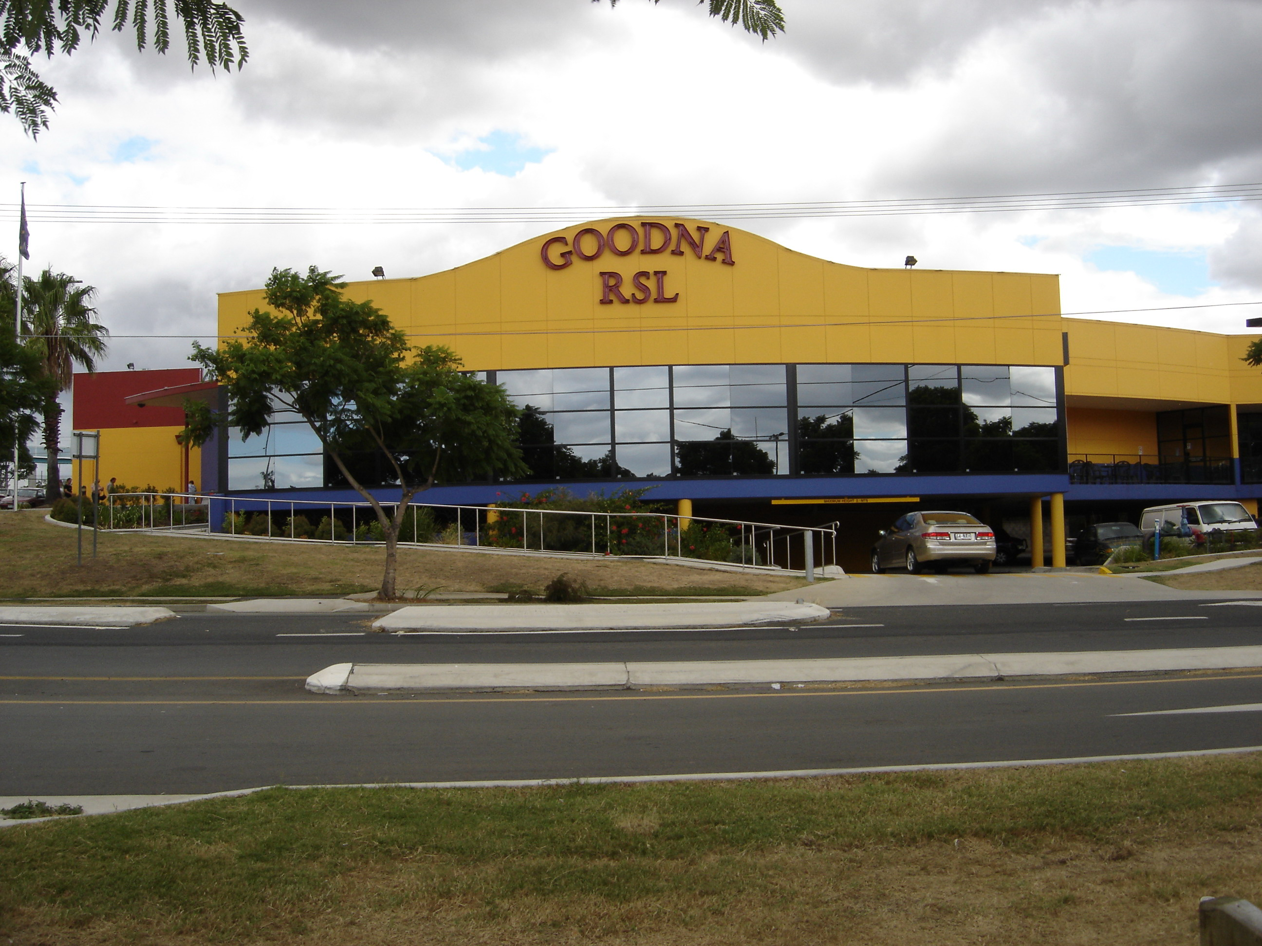 Goodna RSL. Author -"Goodstone".